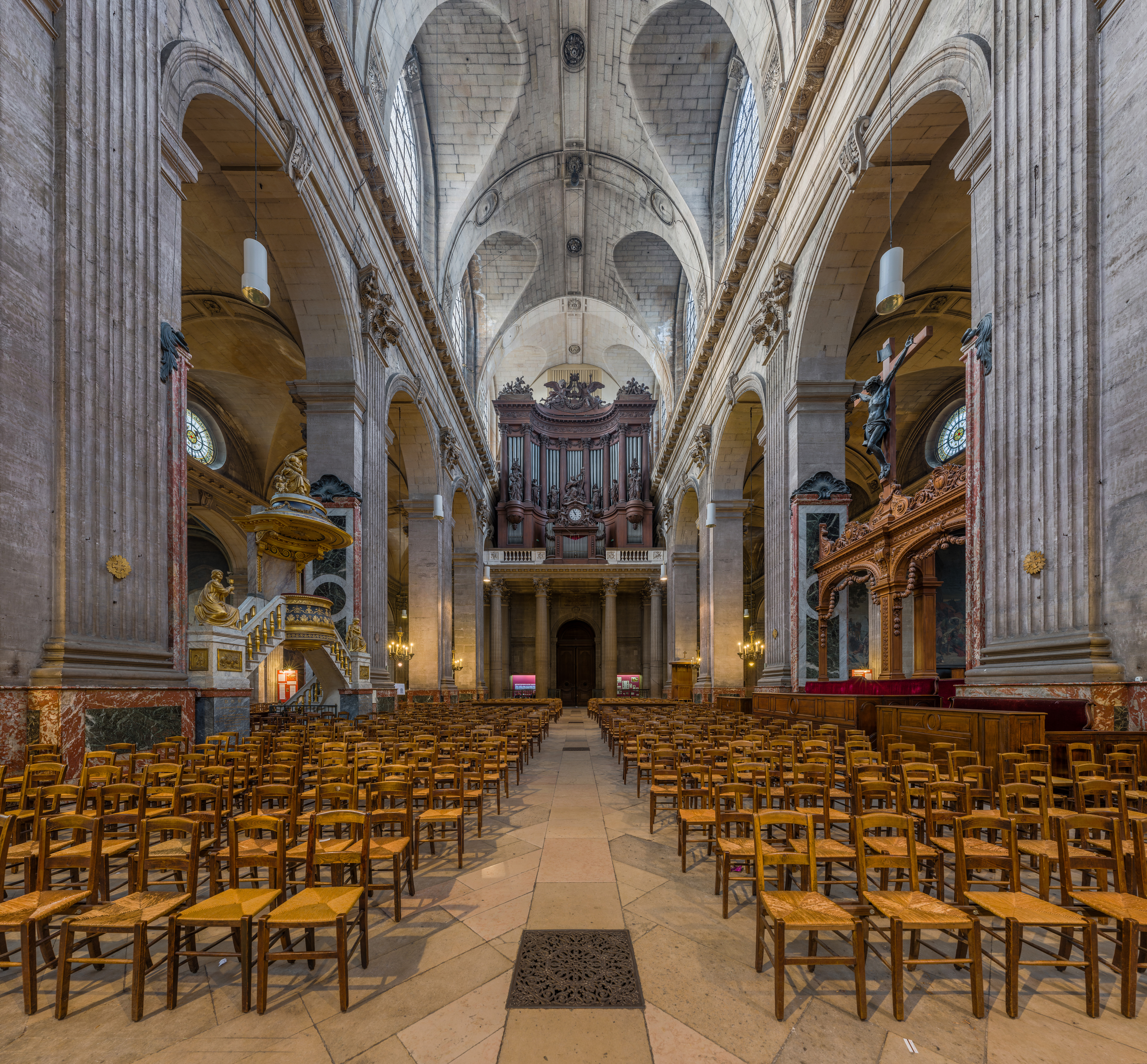 The interior of Saint Sulpice church in Paris, France.